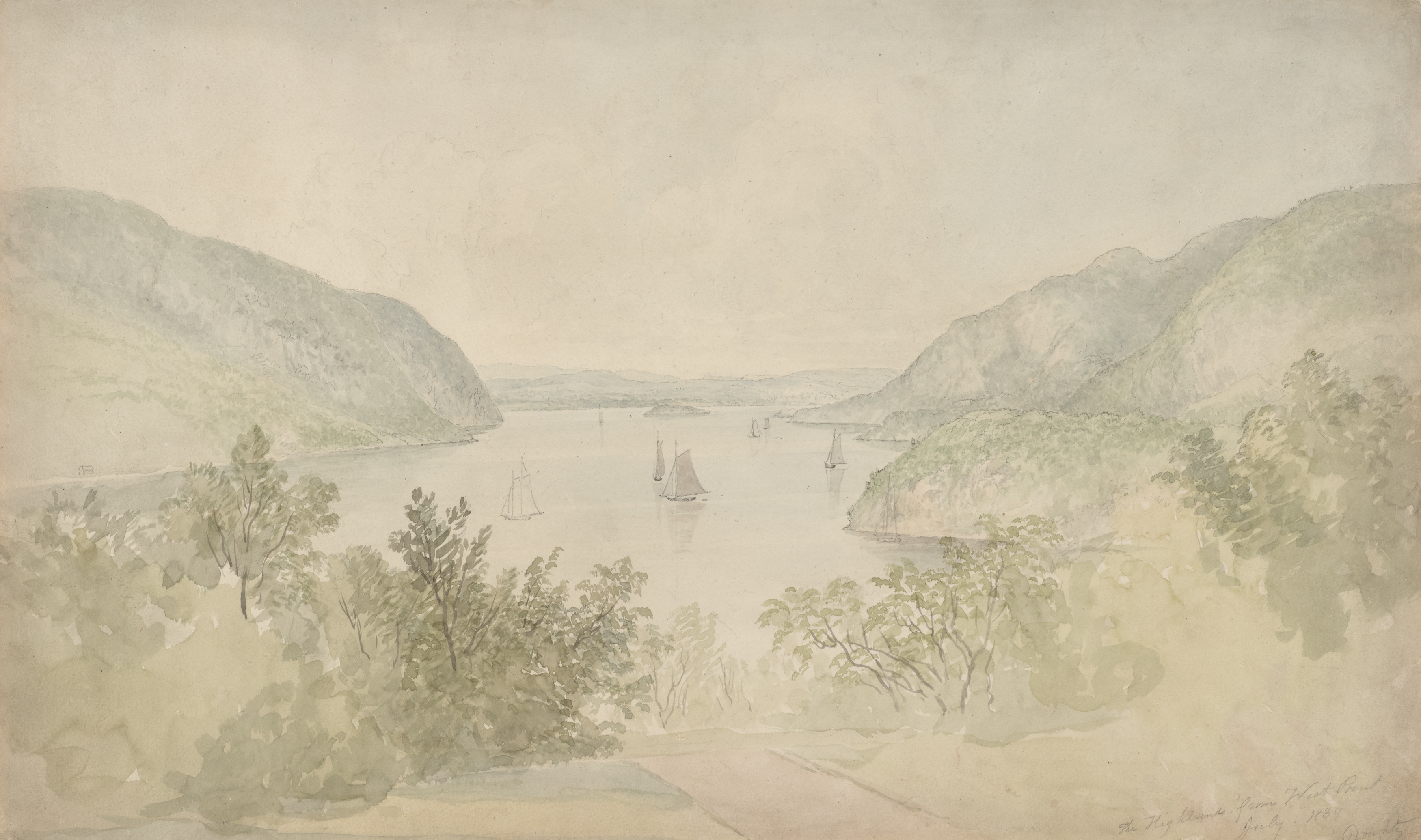 Thomas Doughty, American, 1793–1856 The Highlands from West Point, 1839 Watercolor and graphite on cream wove paper 24.1 x 40.5 cm. (9 1/2 x 15 15/16 in.) Museum purchase, gift of Leonard Milberg, Class of 1953, in honor of his son-in-law, David H. Shapiro, Class of 1992 1996-181 Made on the spot, this signed and dated sketch is characteristic of Doughty’s restrained yet lyrical watercolor manner, which combines a centralized viewpoint with carefully modulated line and brushwork to evoke the quiet grandeur of the Hudson River. Synonymous with the Revolutionary War site and the famed military academy, West Point was also admired for its natural beauty by landscape artists such as Doughty. He painted several grand panoramic vistas from this vantage point—looking northward to the Hudson Highlands, which dramatically frame the water.